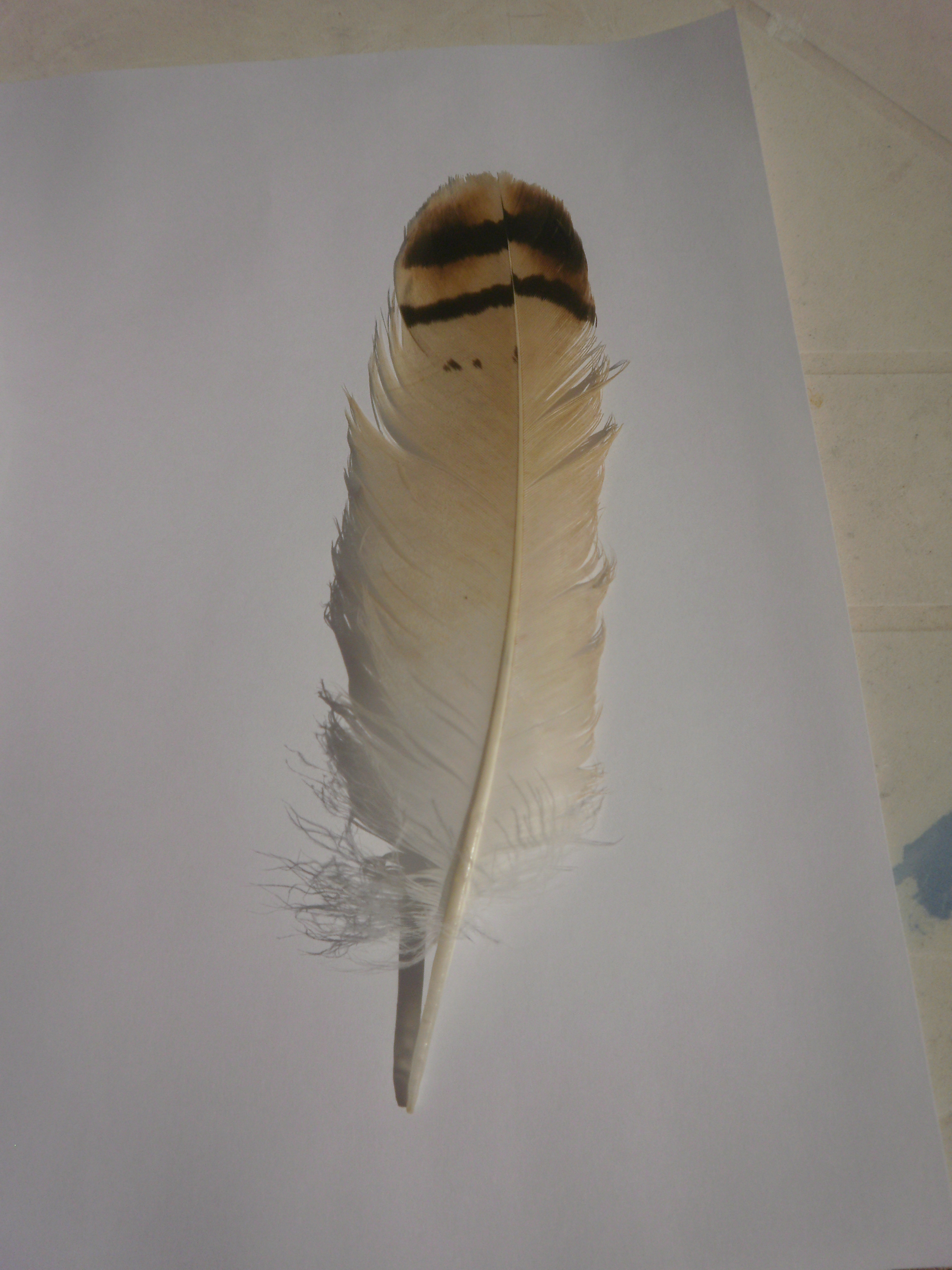 A buzzard's feather